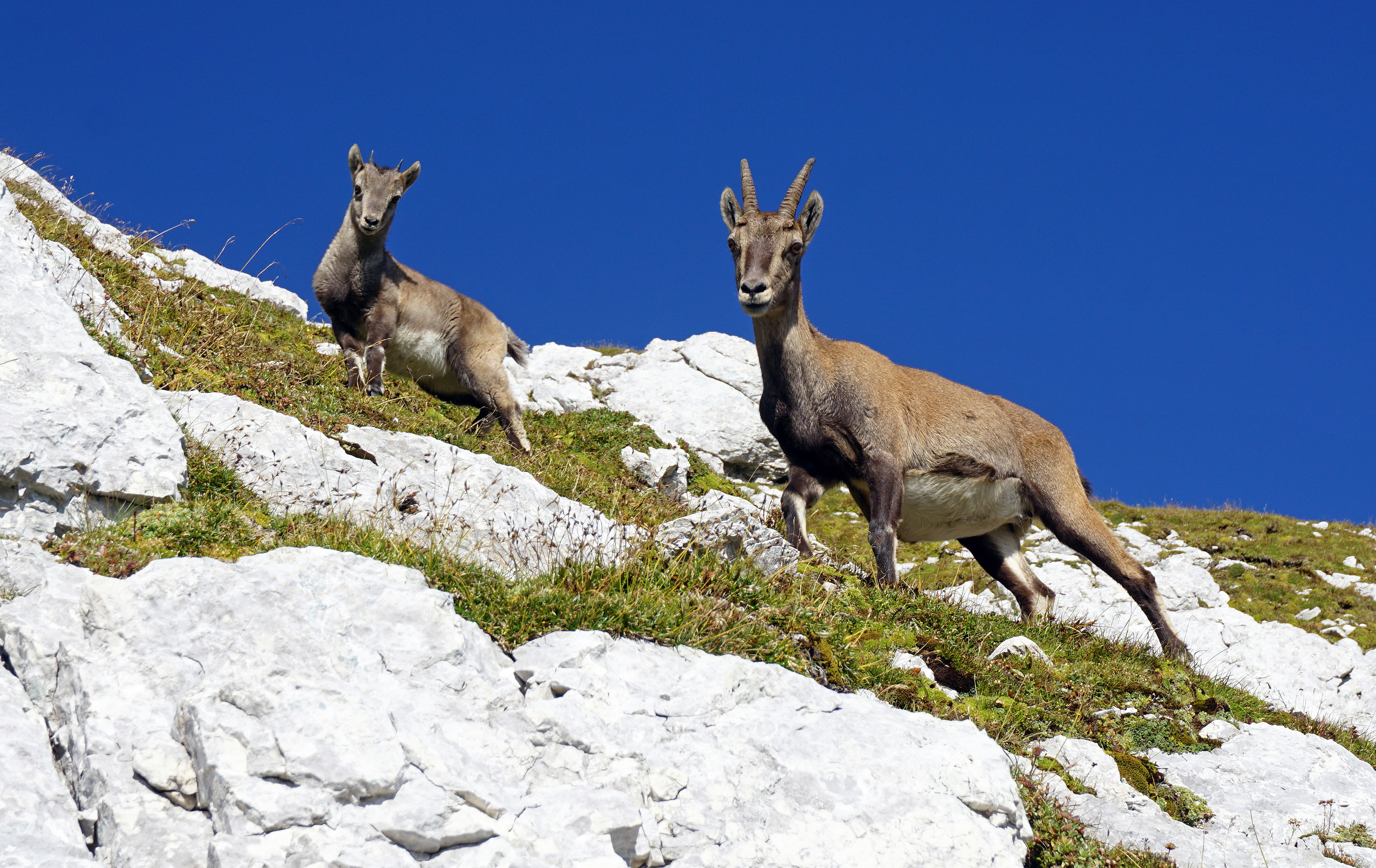 Alpine ibex (Capra ibex) in the hills of Cima di Terrarossa, Julian Alps, Italy.